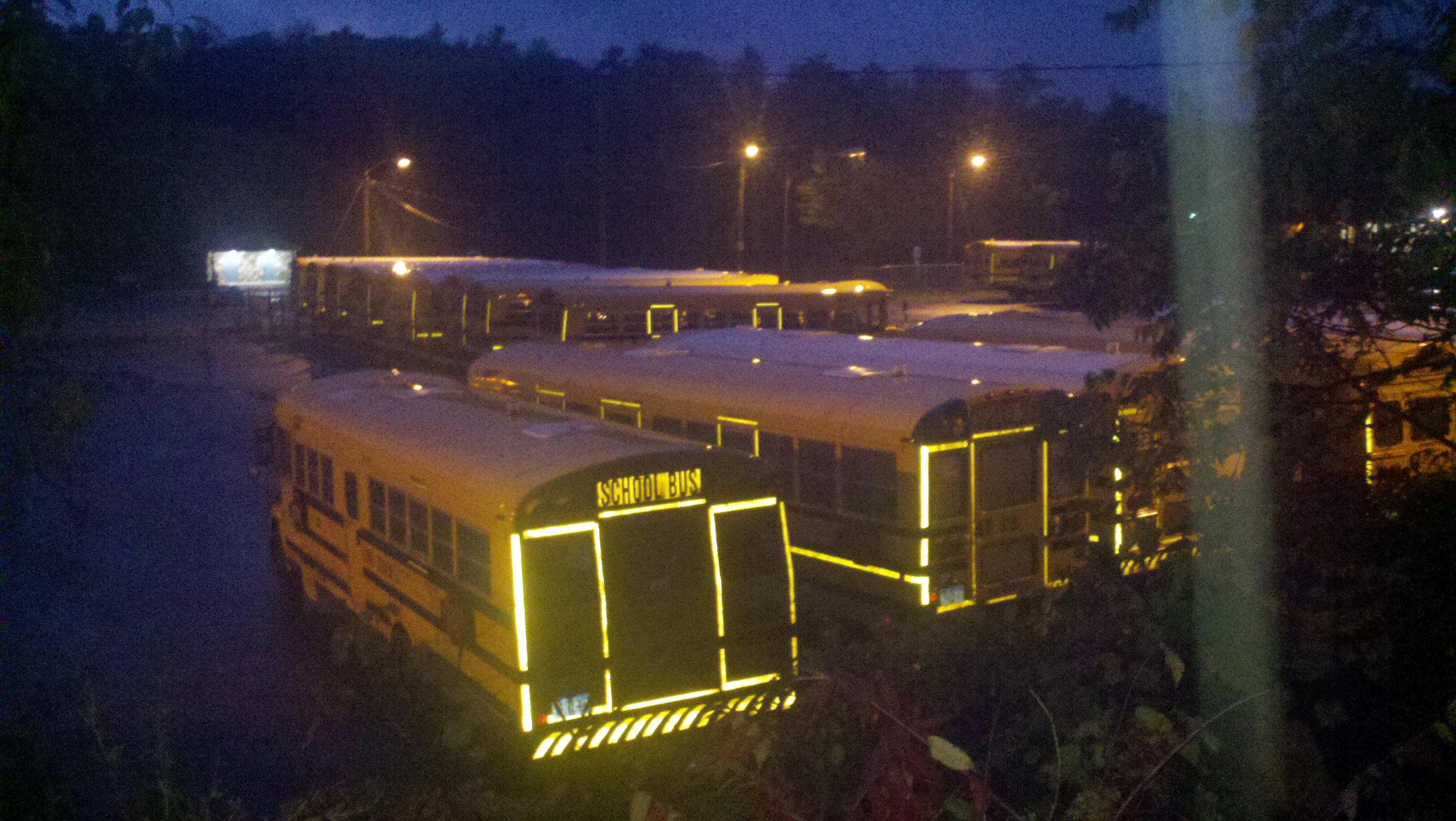 School Buses showing reflective packages.